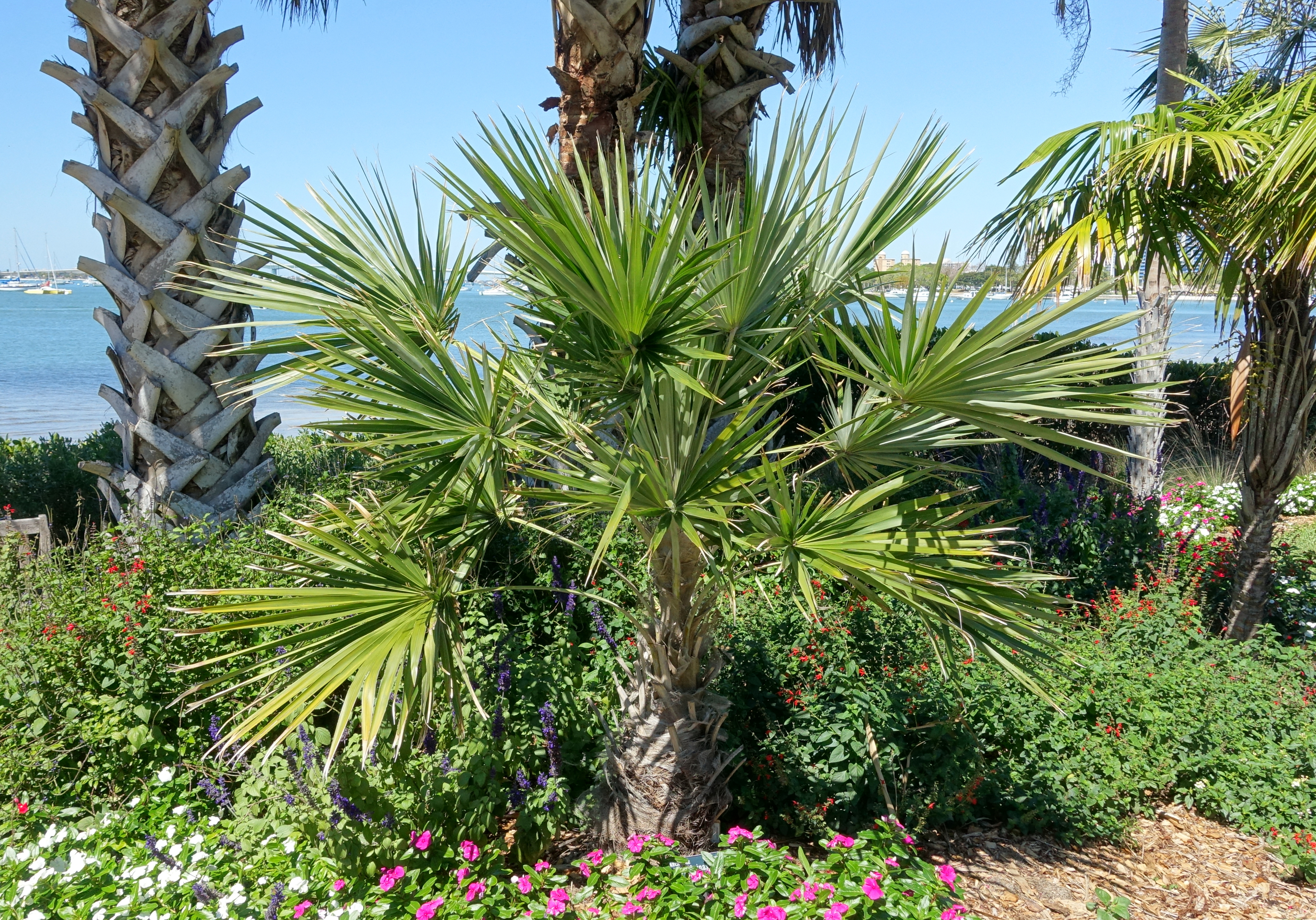 Botanical specimen in the Marie Selby Botanical Gardens - Sarasota, Florida, USA.